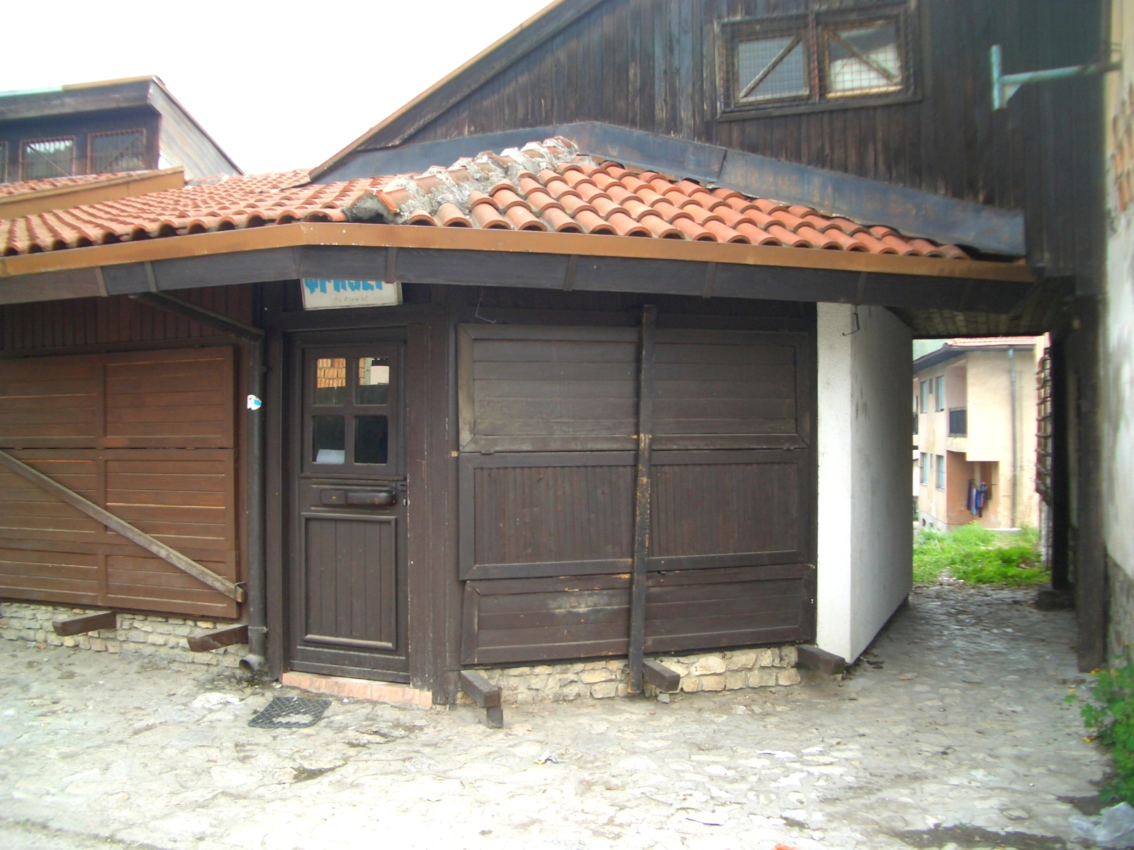 This image was uploaded as part of Trace of Soul 2016.